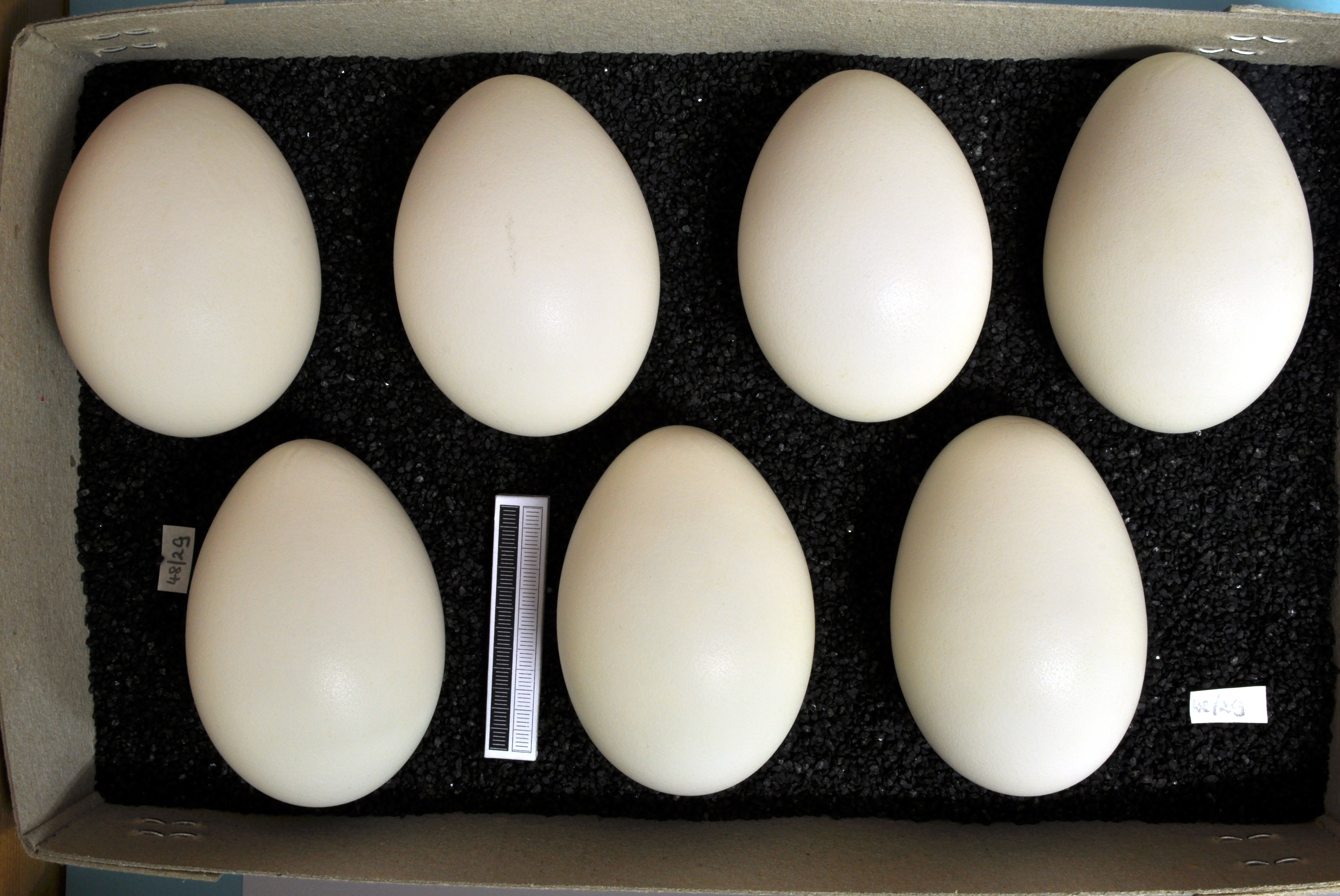 Canada goose Branta canadensis, egg, Coll. Museum Wiesbaden, Origin: Munich, Bavaria, 12.04.1972, leg. W. Abelmann